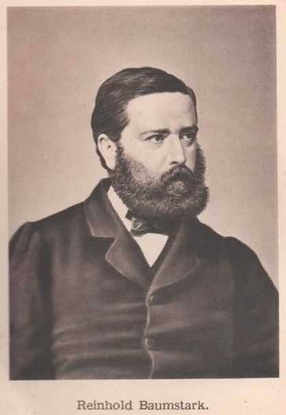 Reinhold Baumstark (1831-1900) badischer Politiker